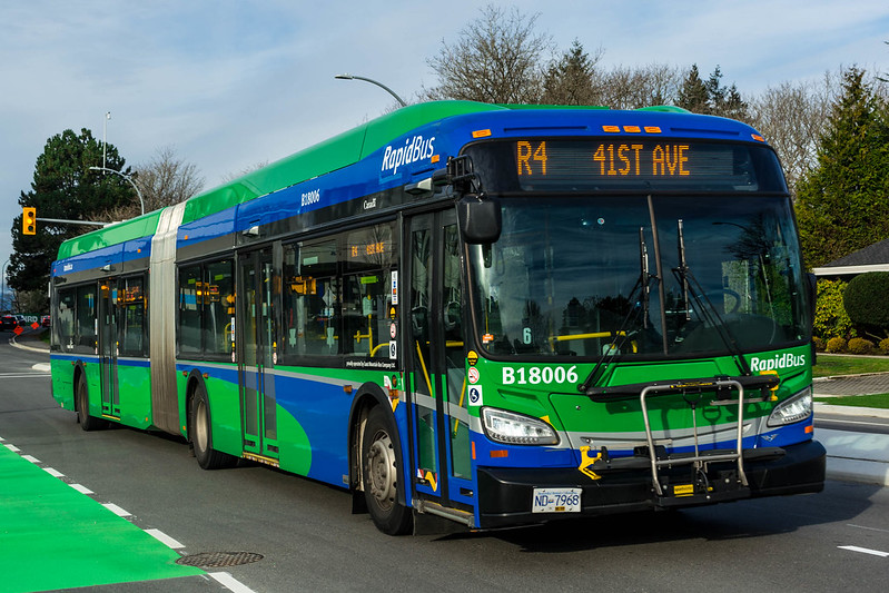 Translink RapidBus #18006 on route R4 exiting UBC en route to Joyce Station